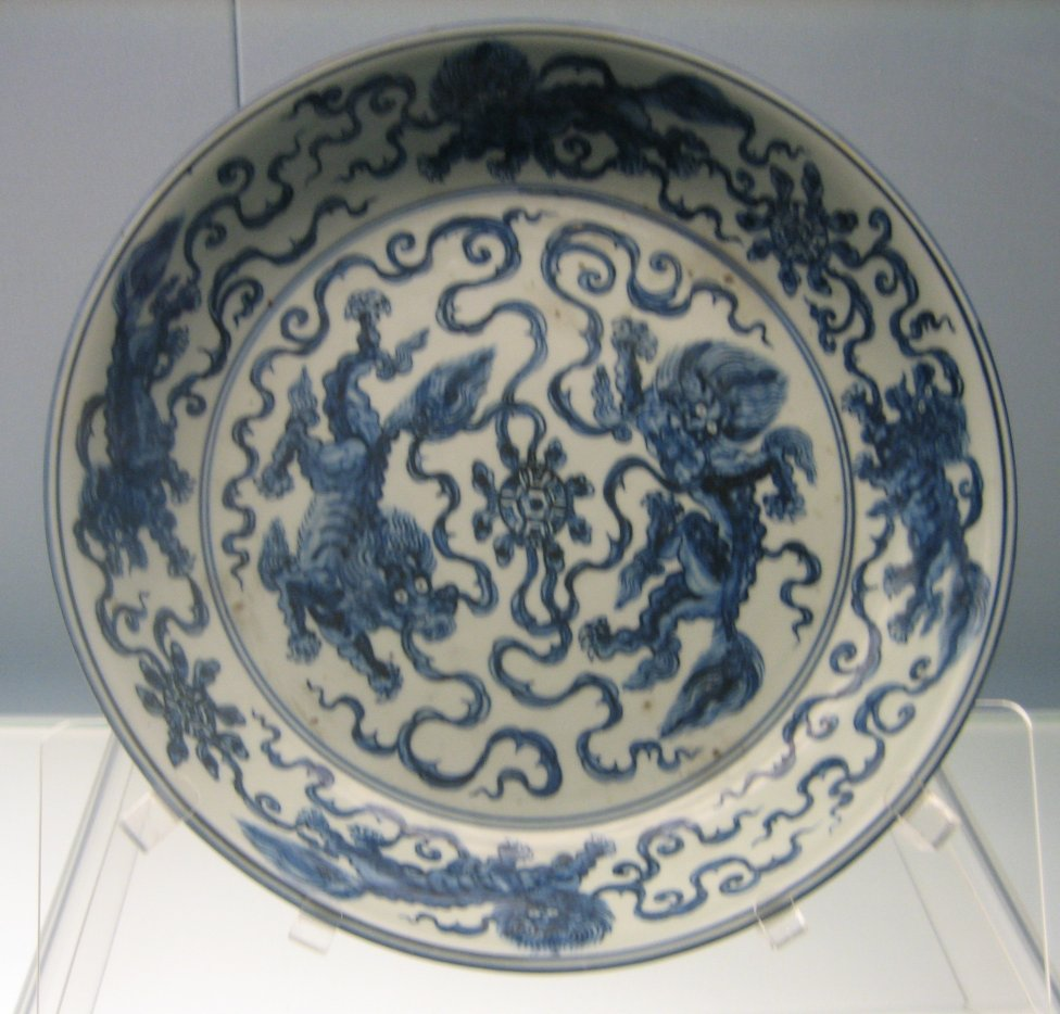 Dish with underglazed blue design of 2 lions playing a ball, Jingdezhen ware, mid 15th century, Shanghai Museum